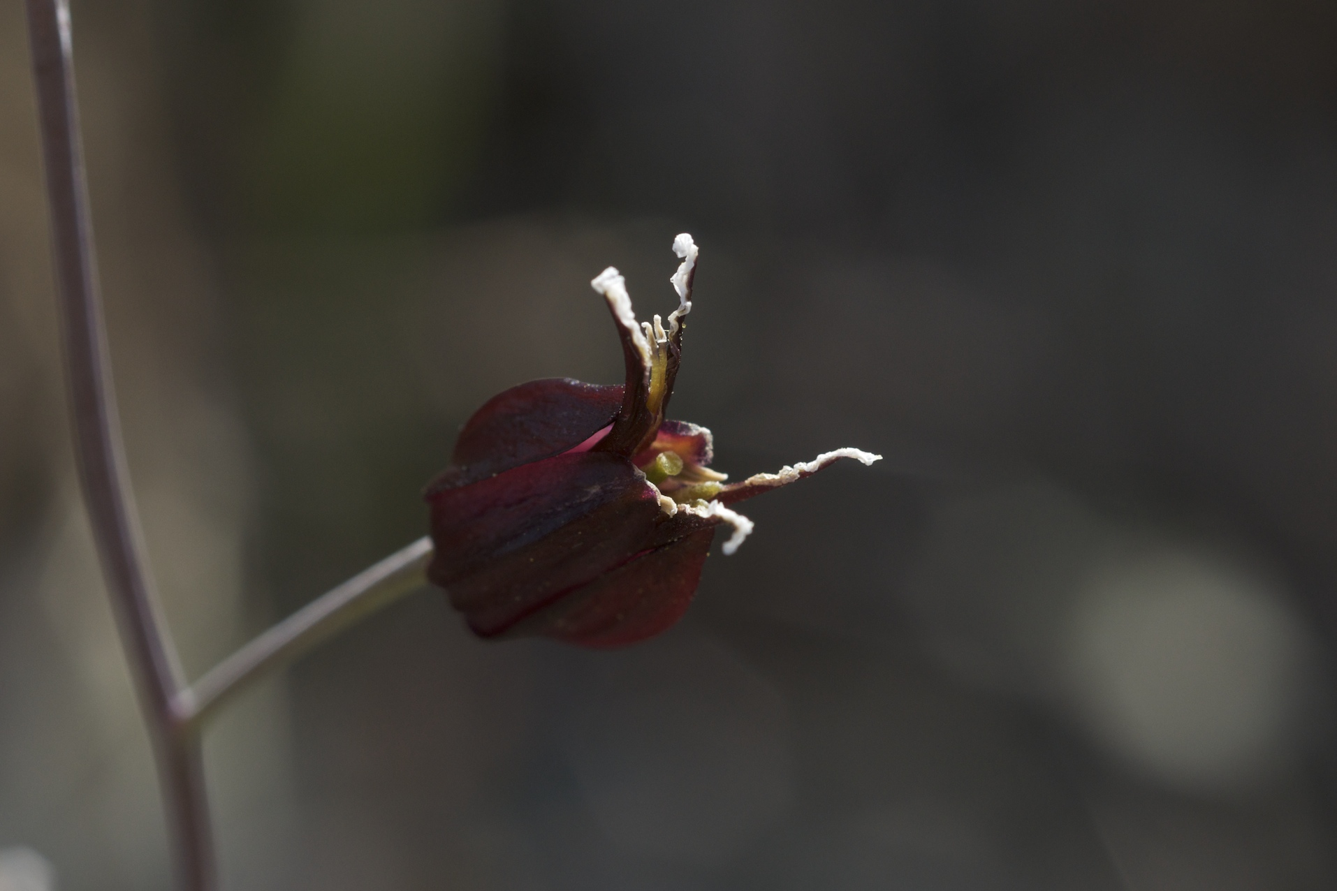 Species from California Common name: Tiburon Jewelflower CNPS Inventory of Rare and Endangered Plants on list 1B.1 (rare, threatened, or endangered in CA and elsewhere). It is listed by the State of California as Endangered and by the Federal Government as Endangered Photographed at The John Thomas Howell Wildflower Preserve, Old St. Hilary's Open Space Preserve, Tiburon, California